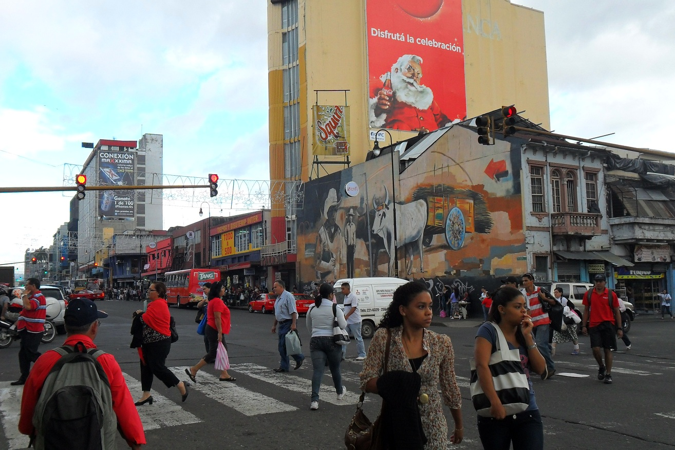 San Jose downtown, Costa Rica